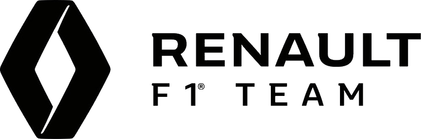 Renault F1 Team logo 2019